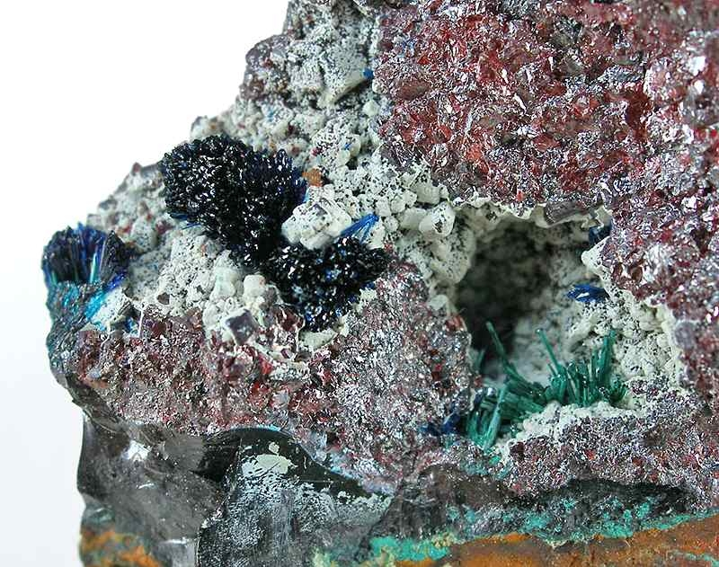 Connellite, Cuprite Locality: Bisbee, Warren District, Mule Mts, Cochise County, Arizona, USA (Locality at ) Size: miniature, 6.0 x 3.9 x 3.2 cm Connellite on Cuprite A rich specimen with three clusters of the very rare species connellite, featuring: two spherical aggregates atop the specimen measureing 5 and 8mm across; and another group of crystals in freestanding form in a protected vug. These were very rare at Bisbee, and I have only ever seen 2 others for sale myself. The matrix is massive cuprite with attached host rock at its back. Esker Mayberry was the Bisbee barber and amassed a large and fine collection of Bisbee specimens in part by trading haircuts!